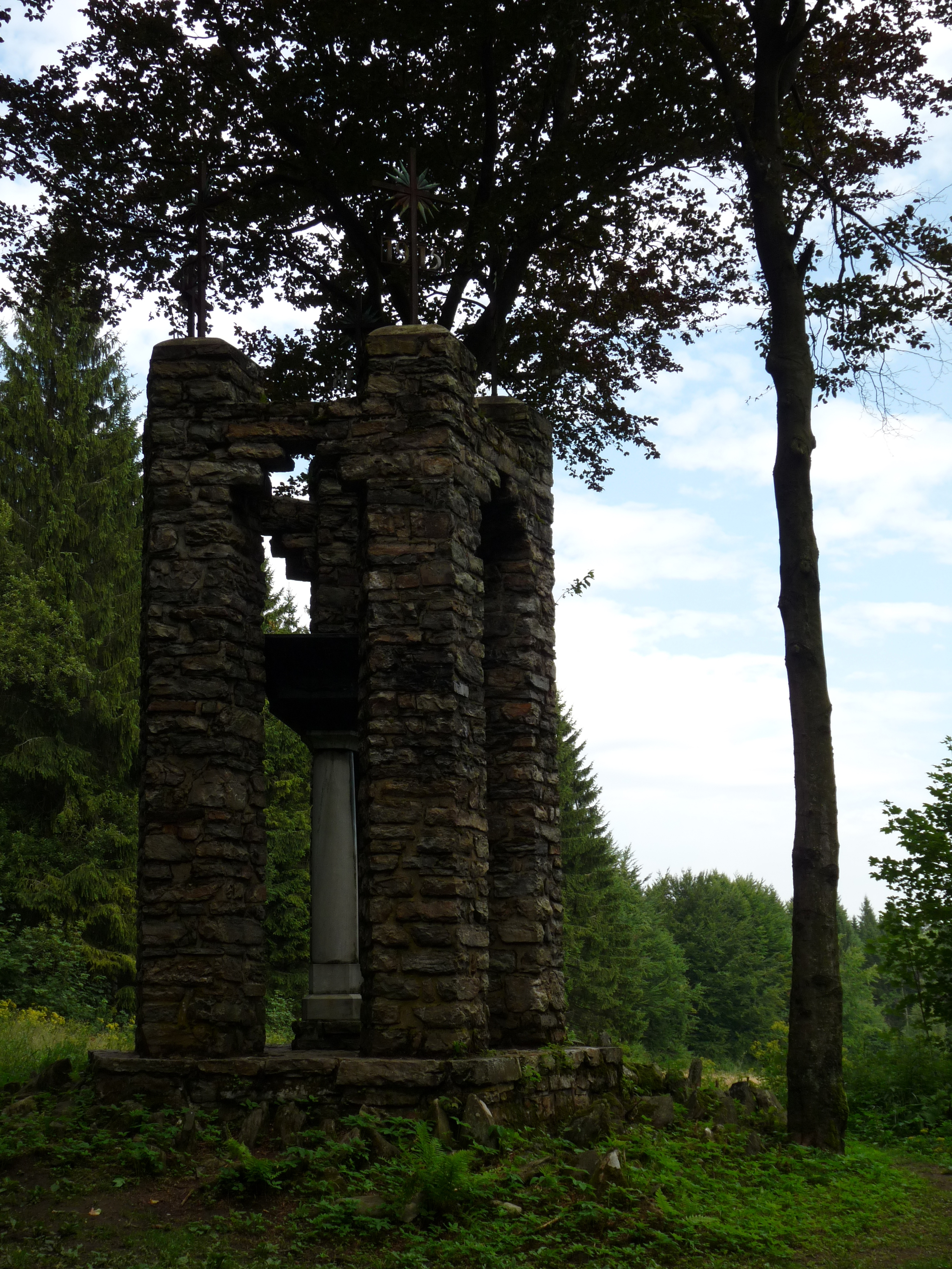 World War I memorial near the village of Rejvíz, Jeseník District, Olomouc Region, Czech Republic.